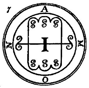 The seal of Amon YT